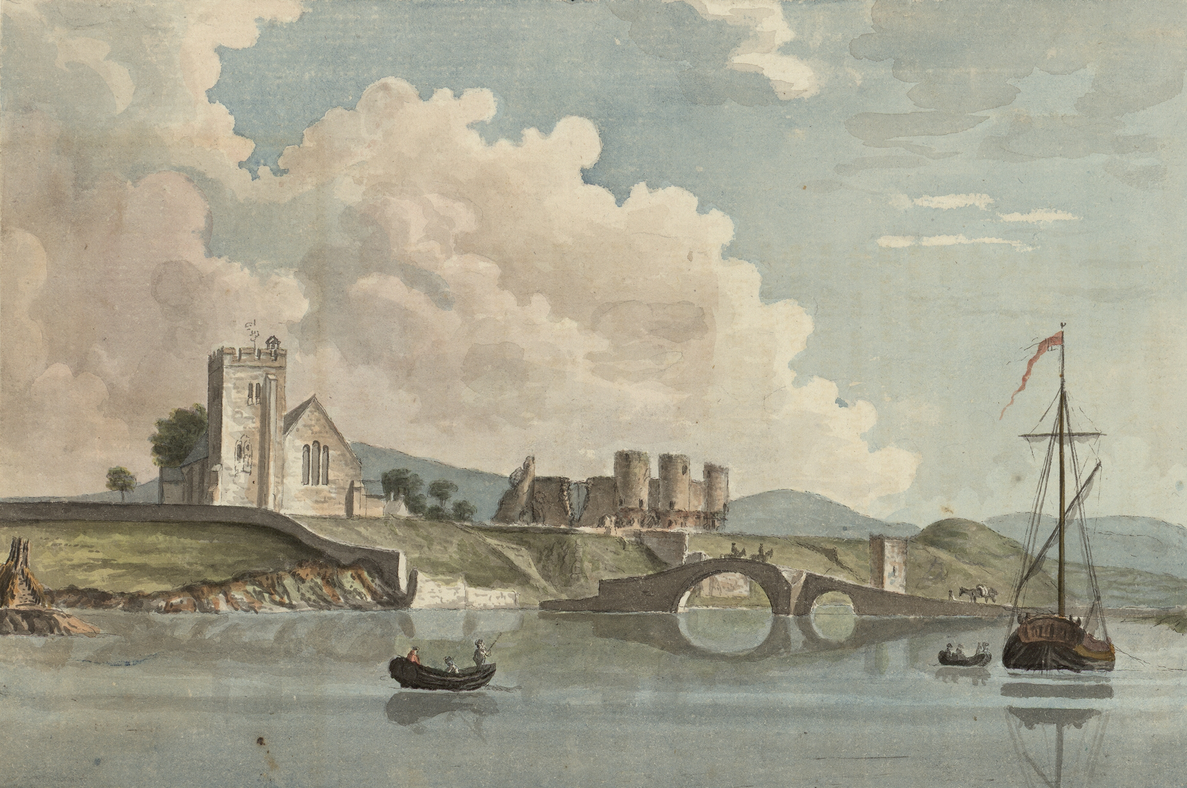 An image from a set of 8 extra-illustrated volumes of A tour in Wales by Thomas Pennant (1726–98) that chronicle the three journeys he made through Wales between 1773 and 1776. These volumes are unique because they were compiled for Pennant's own library at Downing. This edition was produced in 1781. The volumes include a number of original drawings by Moses Griffiths, Ingleby and other well known artists of the period.